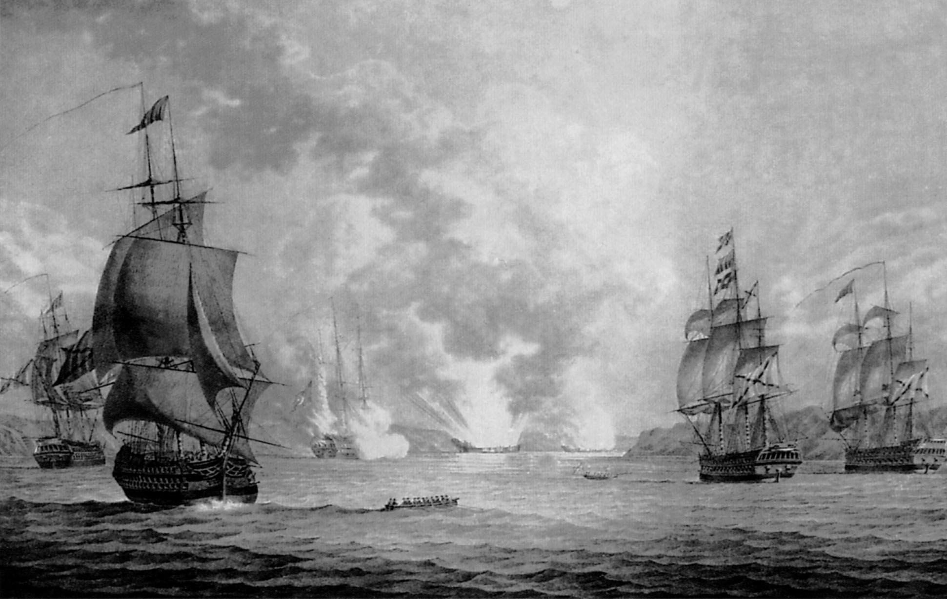 This image used from book (published in 1818) of russian writer V.B.Bronevskoy «Записки русского офицера» ( Letters of russian navy officer). This is «Destroing of turkish ships by admiral Alexey Greig in Battle of Athos in 1807»